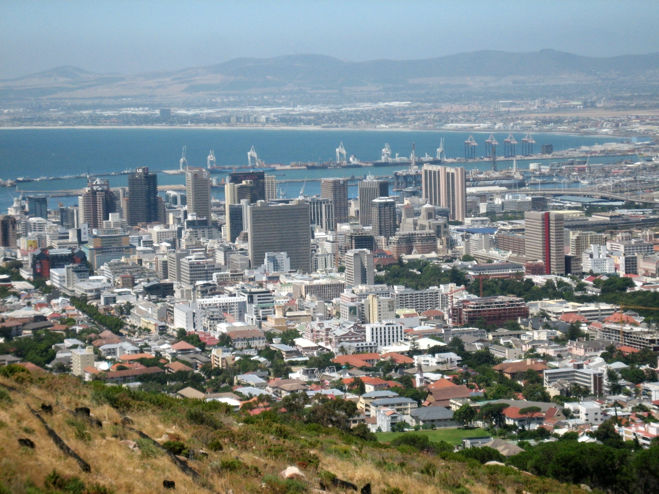 City centre of Cape Town in South Africa. View from the nearby mountain Lion’s Head.